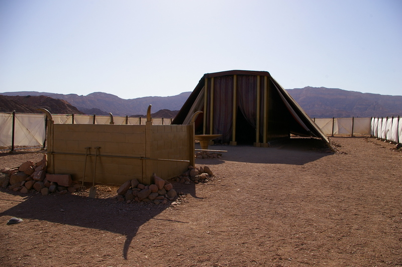 A full size replica of the Israelite Tabernacle in Timna, Israel.